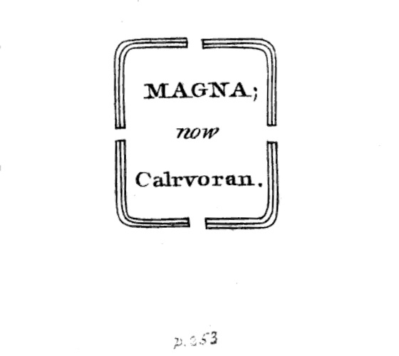 "MAGNA; now Calrvoran". Engraving from page 253 of The History of the Roman Wall by William Hutton. Printed by John Nichols and Son, London, 1802.